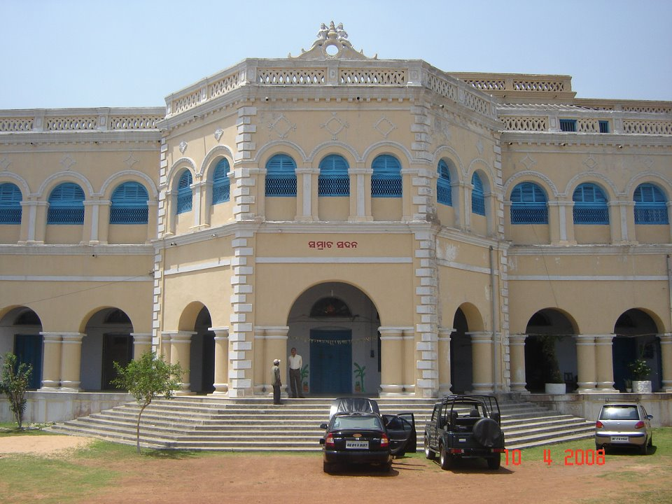 This is the front view of Talcher Palace, located in Talcher Orissa. An old version of the same picture already exists on the Talcher page on wikipedia. That can be replaced with this recent picture on